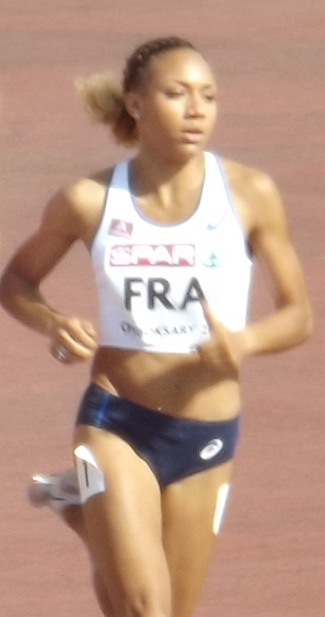 Rénelle Lamote competing at the 2015 European Team Championships